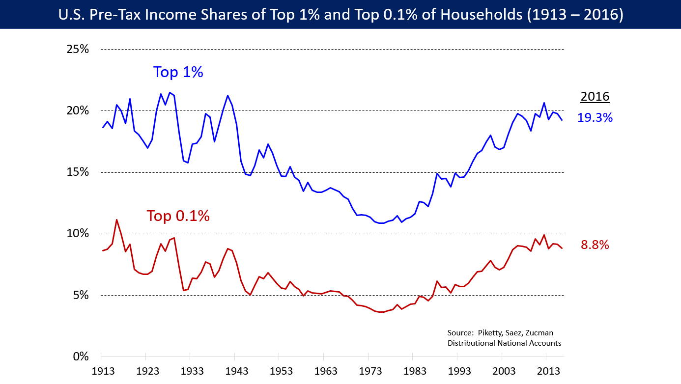 U.S. income inequality as measured by the pre-tax income share of the top 1% and 0.1% of households, from 1913 to 2016, using the Piketty-Saez-Zucman data.